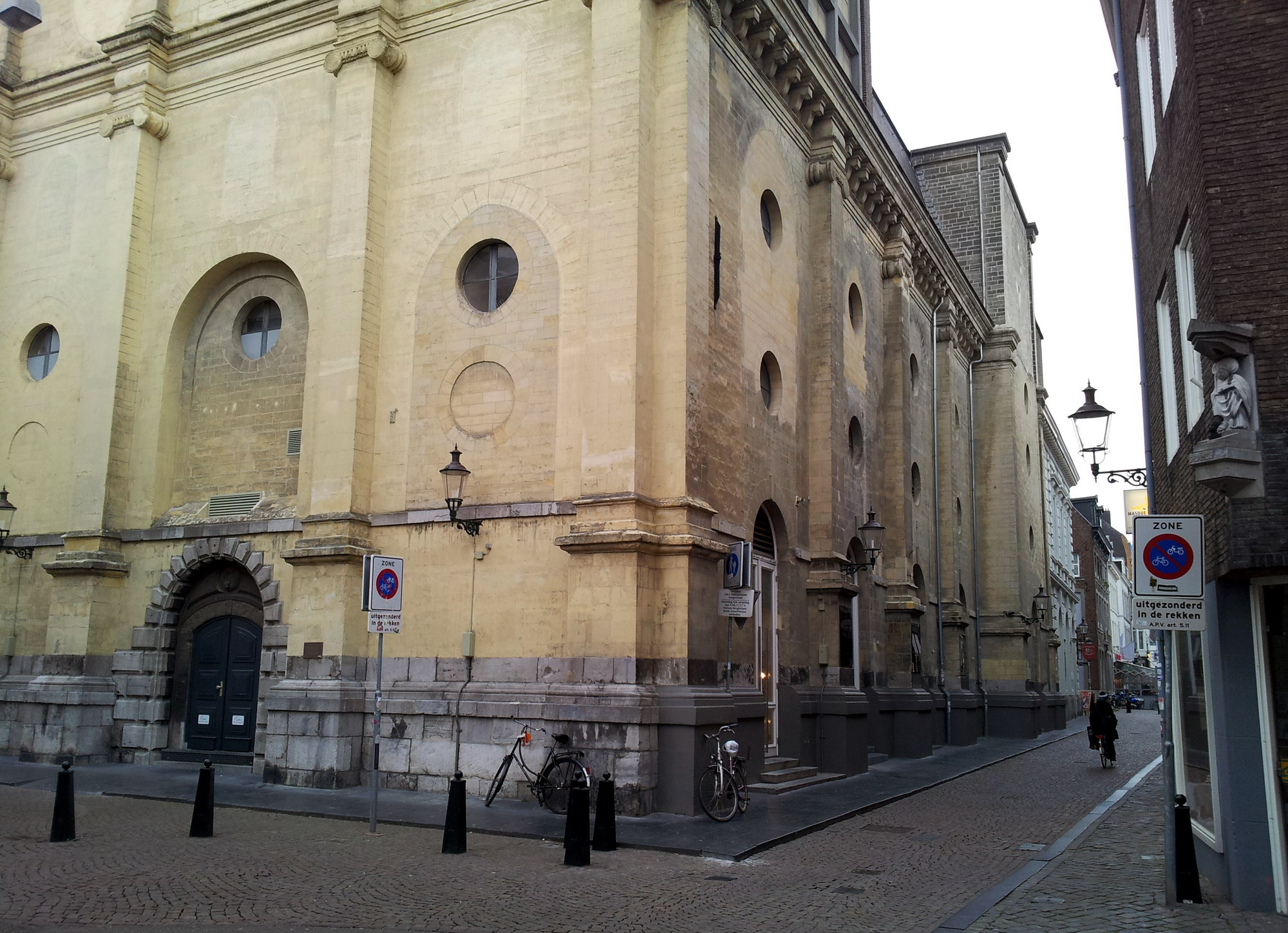 Maastricht, the Netherlands. View towards the East of Bredestraat in the old part of town. View of parts of the West facade and Southern part of the former Jesuit church, for 200 years Maastricht's main theater, now a cultural venue, restaurant and shops.